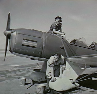 Narromine, NSW. Two WAAAF Flight Mechanics engaged in washing down a Ryan aircraft at No. 5 Elementary Flying Training School RAAF. This aircraft was flown by the Chief Flying Instructor, Squadron Leader (Sqn Ldr) K. Wedgwood, and had a Sqn Ldr's insignia painted on the nose.